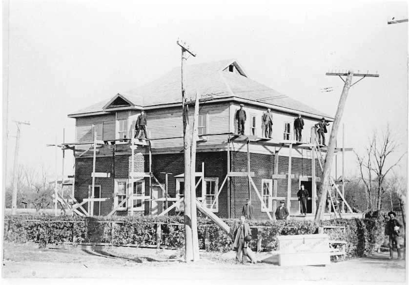 View of the Sutton Radial Station under construction in 1906.